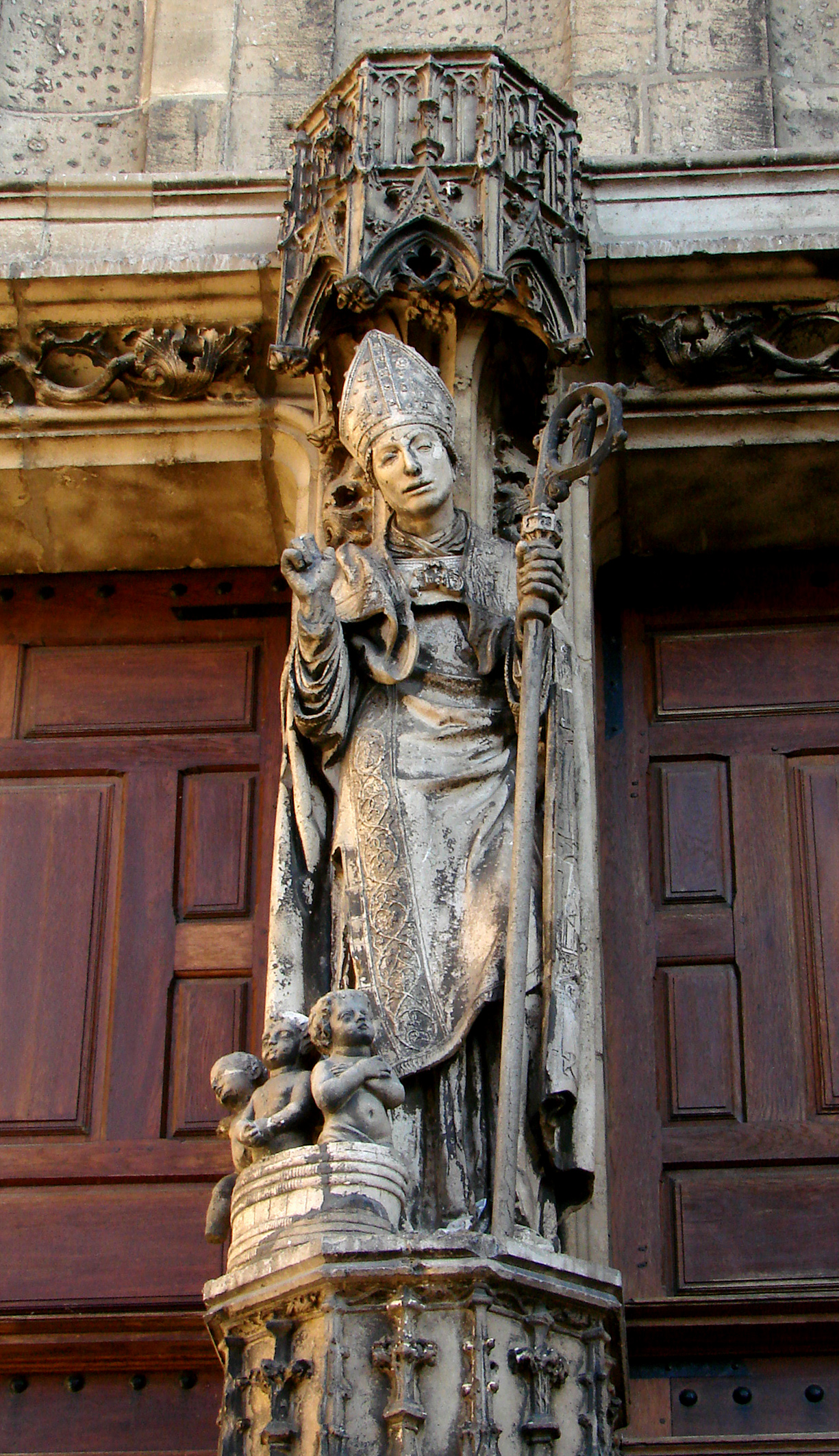 Saint-Nicholas basilica, Saint-Nicolas-de-Port, Meurthe-et-Moselle, Lorraine, France. 16th century.Statue of Saint-Nicolas, believed to be by Claude Richier (Ligier Richier's brother)